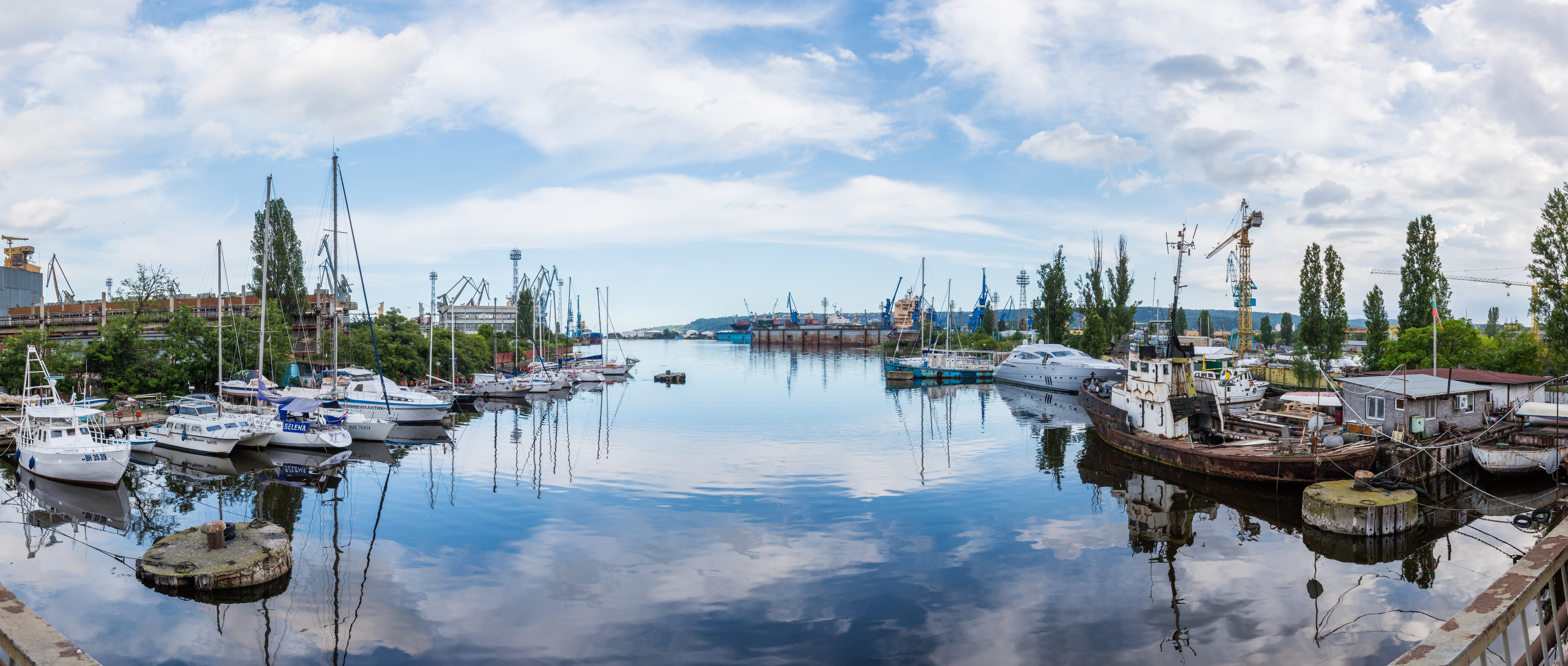 Gulf of Varna, Bulgaria